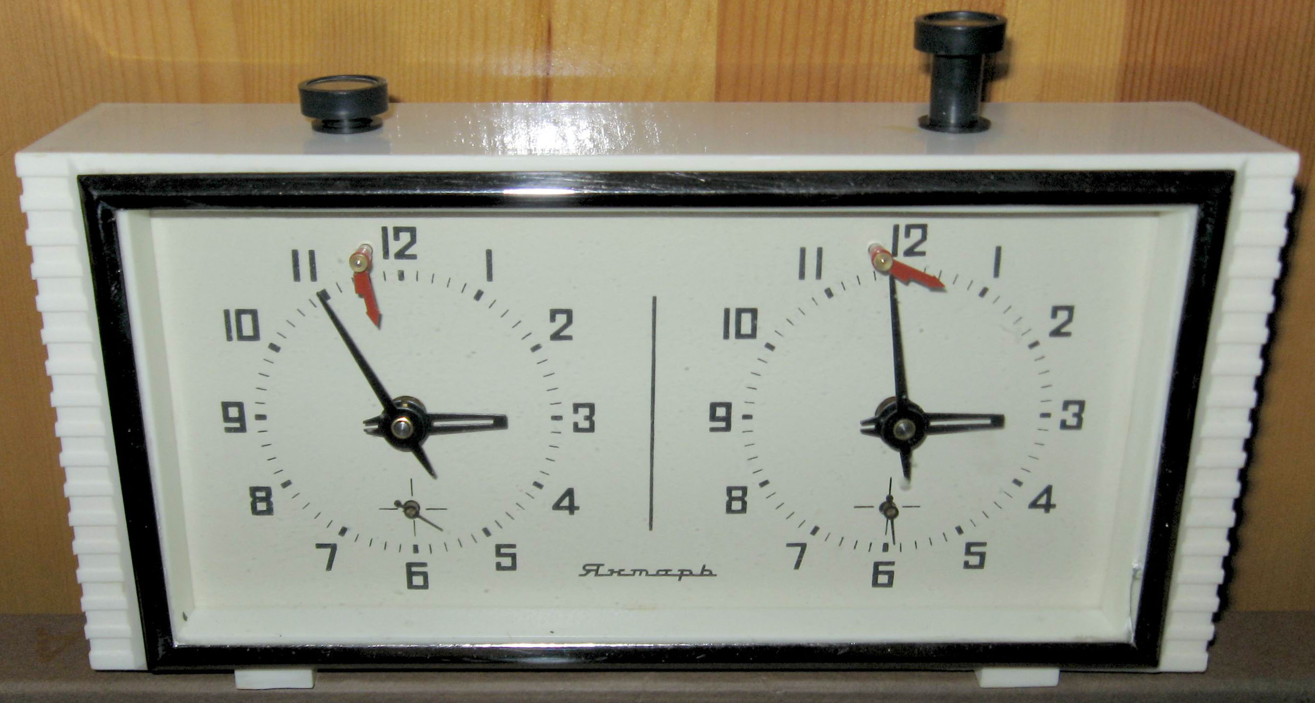 Soviet chess clock “Yantar”. Produced in 1988.